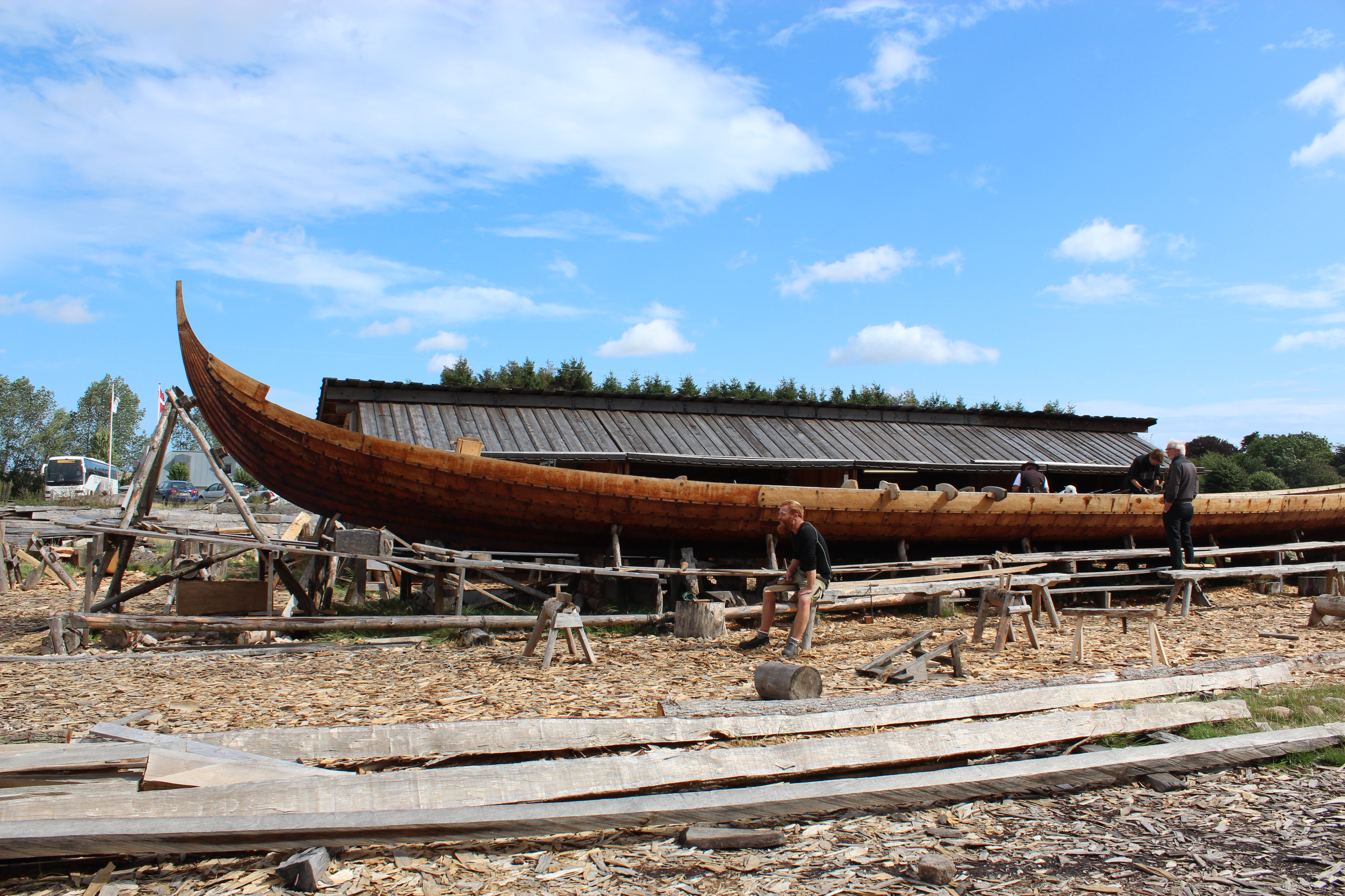 Reconstruction of the Ladby Ship at Vikingmuseum Ladby summer 2014.